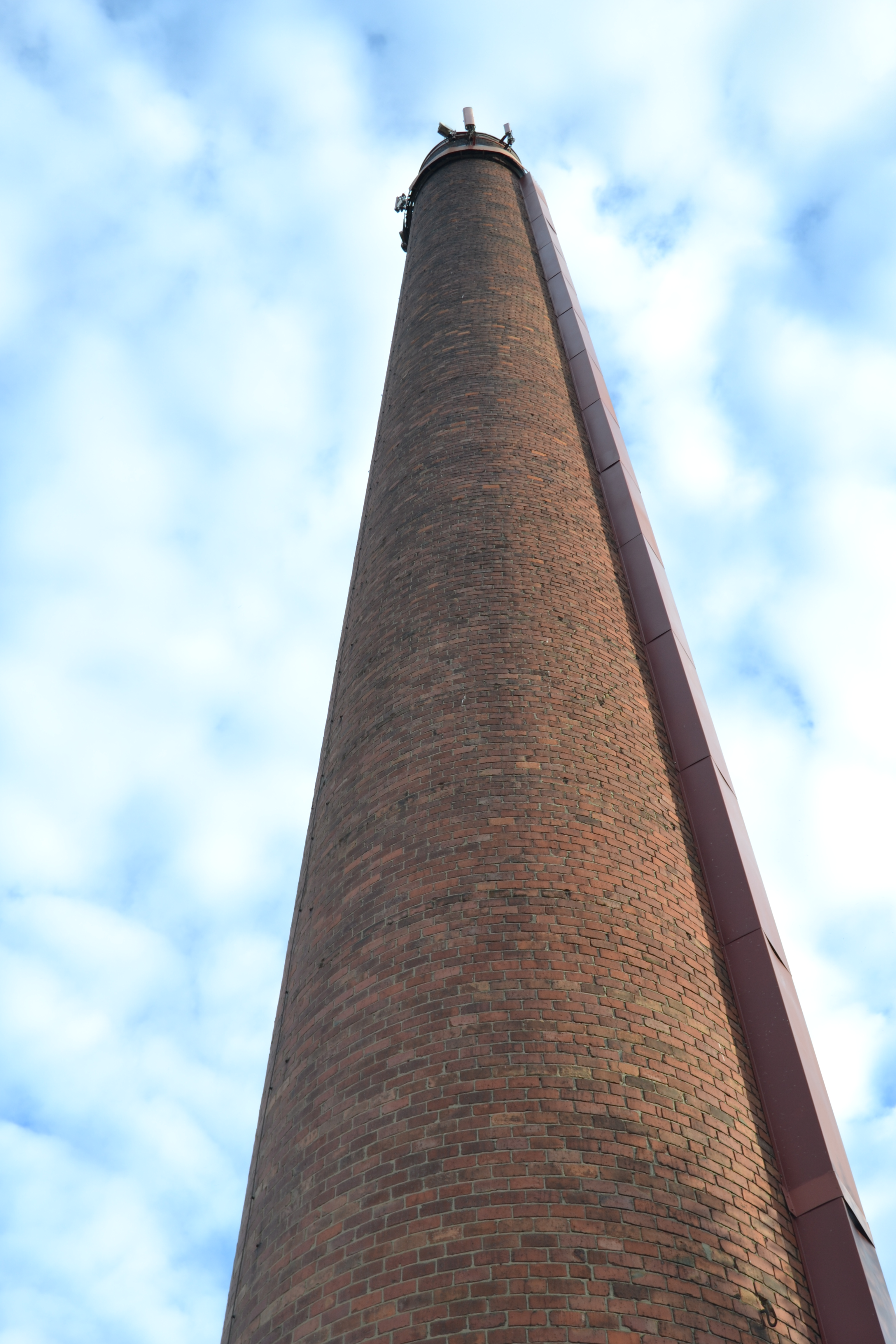 Chemney of the ancient Bure aux Femmes coal mine, Société anonyme des Charbonnages de Patience et Beaujonc réunis, Liège, Belgium)